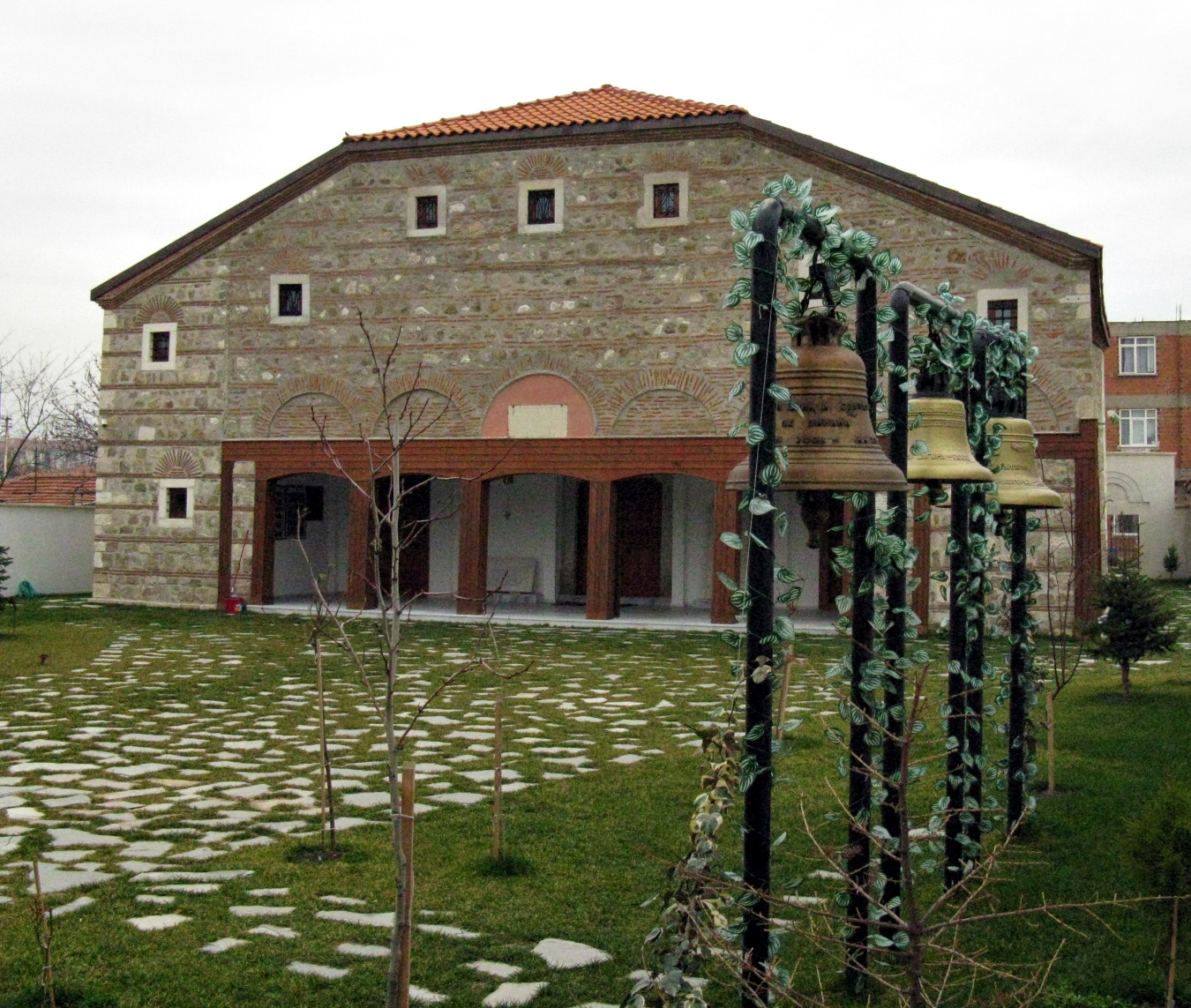 Bulgarian Orthodox Church of Sts. Constantine and Helen, Front Patio and garden - in Edirne - Turkey